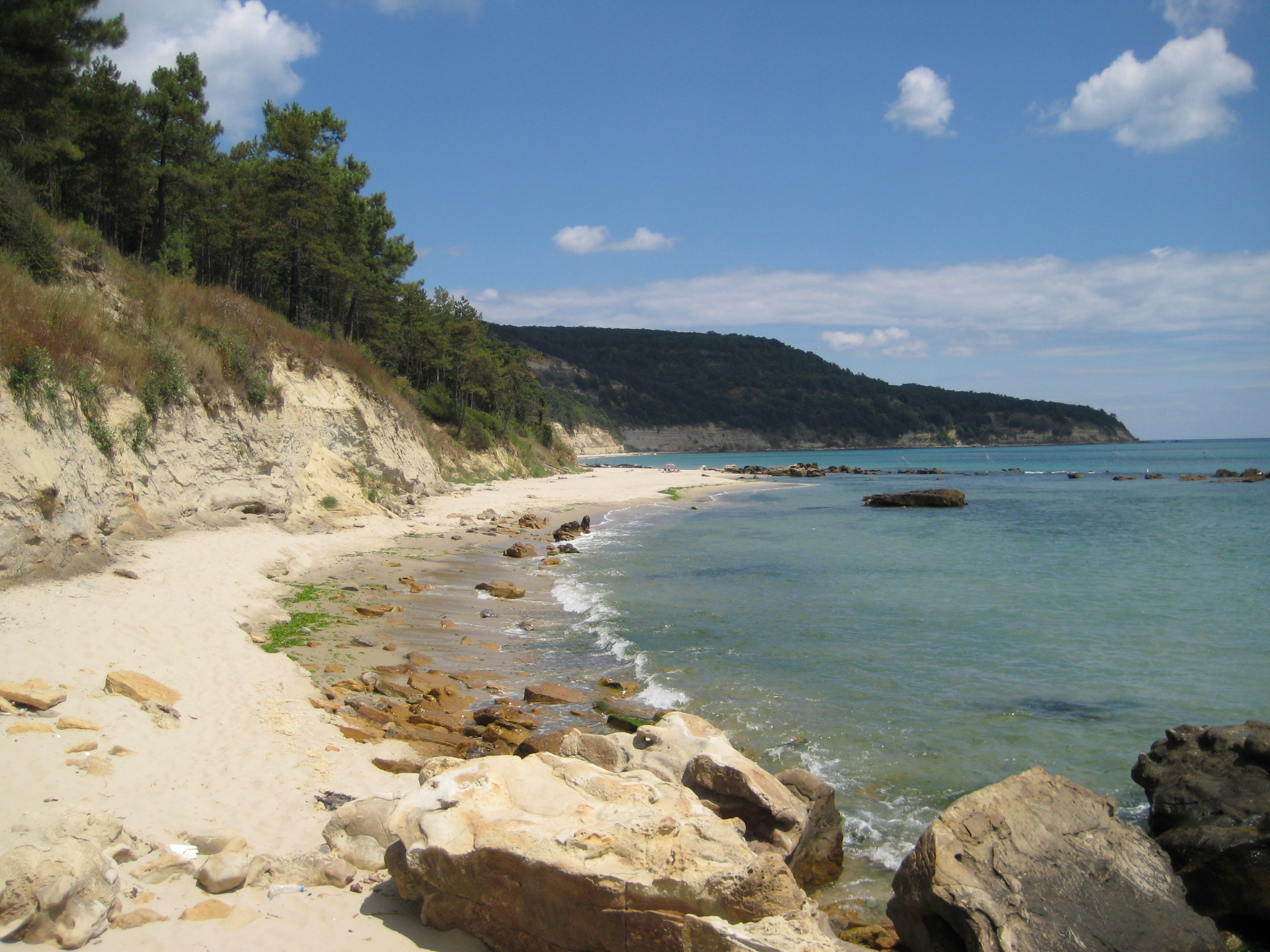 Image of the sandstone cliffs of Kamchiya, Bulgaria. Taken slightly north of the resort of "Къмпинг Рай", (lit. Camping Heaven)